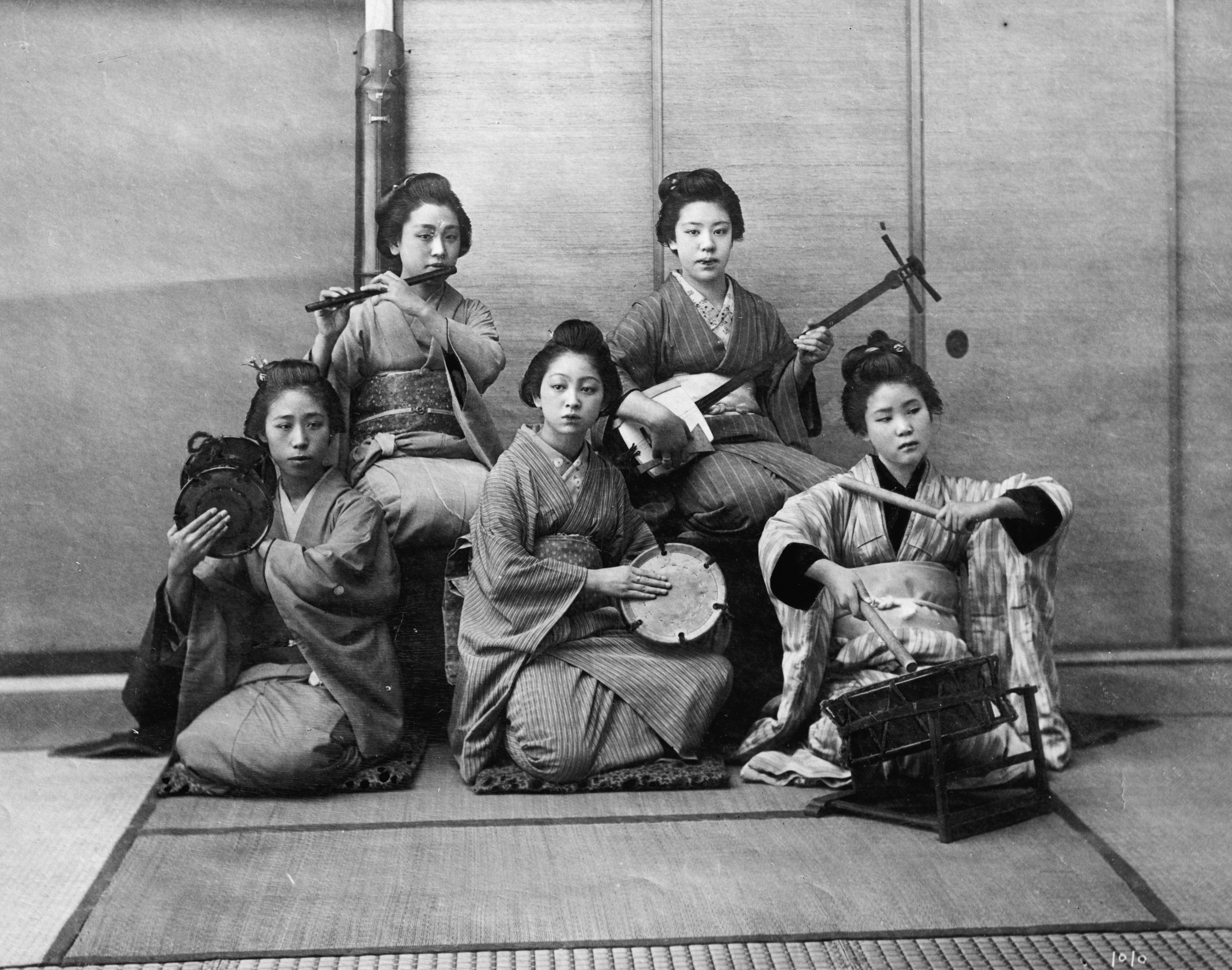 Playing on samisen, fuye, taiko, and tsuzumi. CREATED/PUBLISHED [between 1910 and 1920] NOTES "B 1010" on negative. No Detroit Publishing Co. no. Gift; State Historical Society of Colorado; 1949.